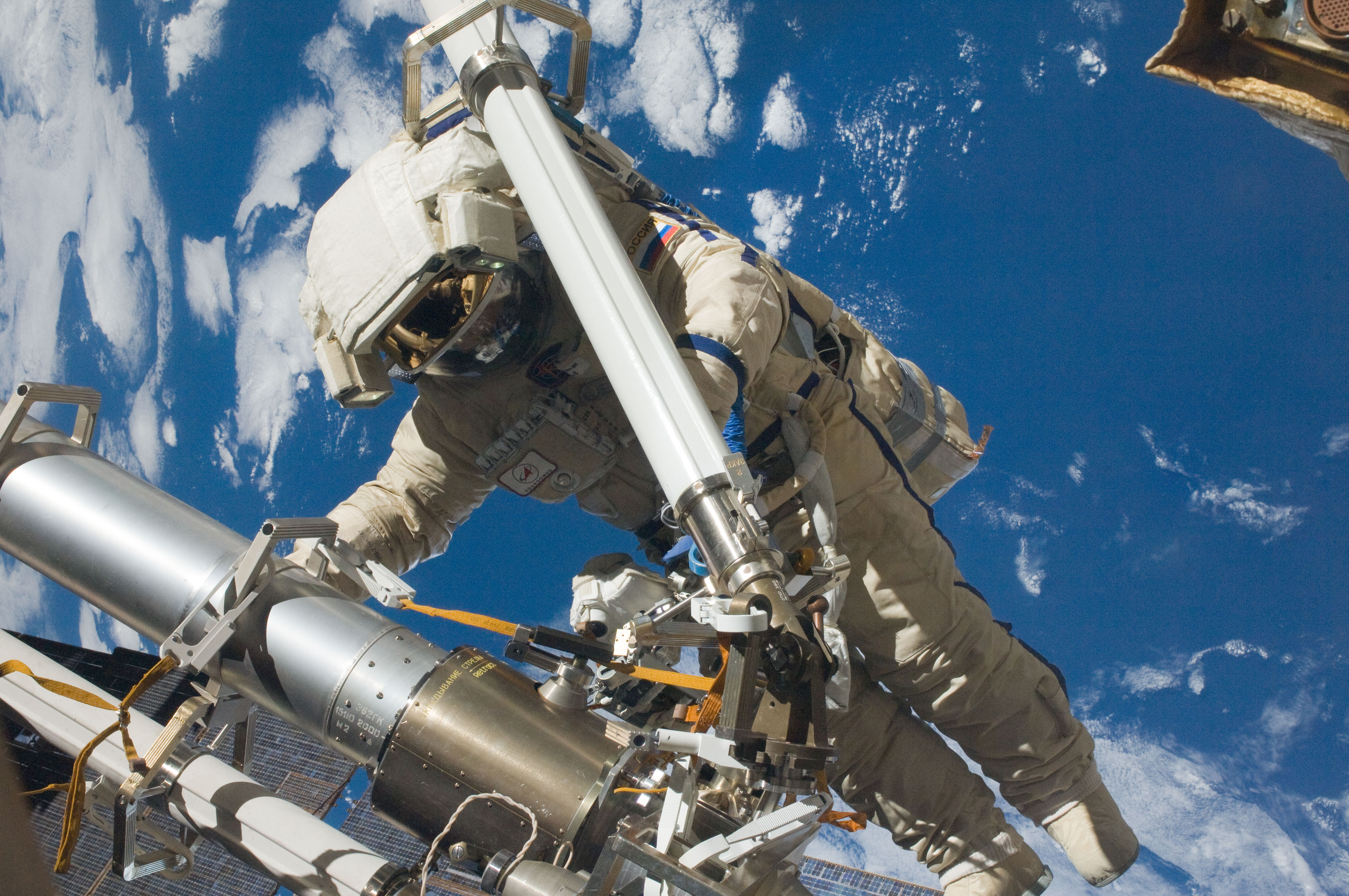 Russian cosmonaut Anton Shkaplerov, Expedition 30 flight engineer, participates in a session of extravehicular activity (EVA) to continue outfitting the International Space Station. During the six-hour, 15-minute spacewalk, Shkaplerov and Russian cosmonaut Oleg Kononenko (out of frame), flight engineer, moved the Strela-1 crane from the Pirs Docking Compartment to begin preparing the Pirs for its replacement next year with a new laboratory and docking module. The duo used another boom, the Strela-2, to move the hand-operated crane to the Poisk module for future assembly and maintenance work. Both telescoping booms extend like fishing rods and are used to move massive components outside the station. On the exterior of the Poisk Mini-Research Module 2 (MRM2), they also installed the Vinoslivost Materials Sample Experiment, which will investigate the influence of space on the mechanical properties of the materials. The spacewalkers also collected a test sample from underneath the insulation on the Zvezda Service Module to search for any signs of living organisms. Both spacewalkers wore Russian Orlan spacesuits bearing blue stripes and equipped with NASA helmet cameras.